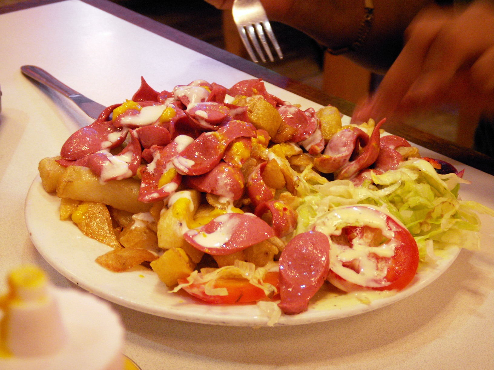 Salchipapas served in Lima, Peru.